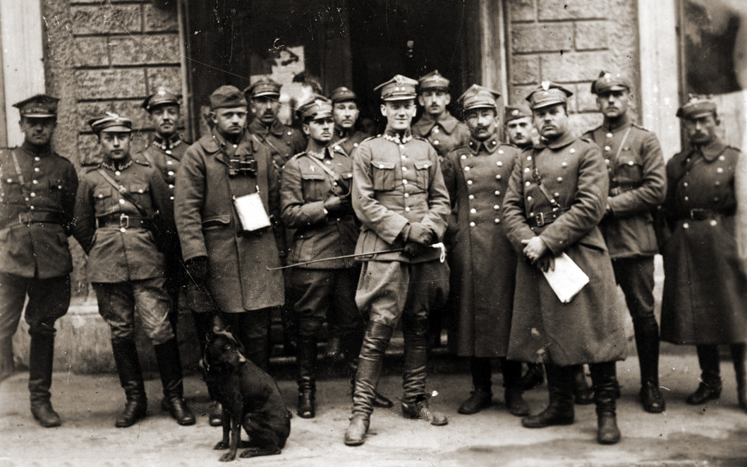 Oficerowie Oddziału Wydzielonego ppłk. Gustawa Paszkiewicza ( w środku ze szpicrutą) (55. i 56. pp, 2. i 3. dyon 14. pap, 3. komp. 14. baonu saperów) po ponownym zajęciu Mińska Litewskiego w wojnie polsko-bolszewickiej